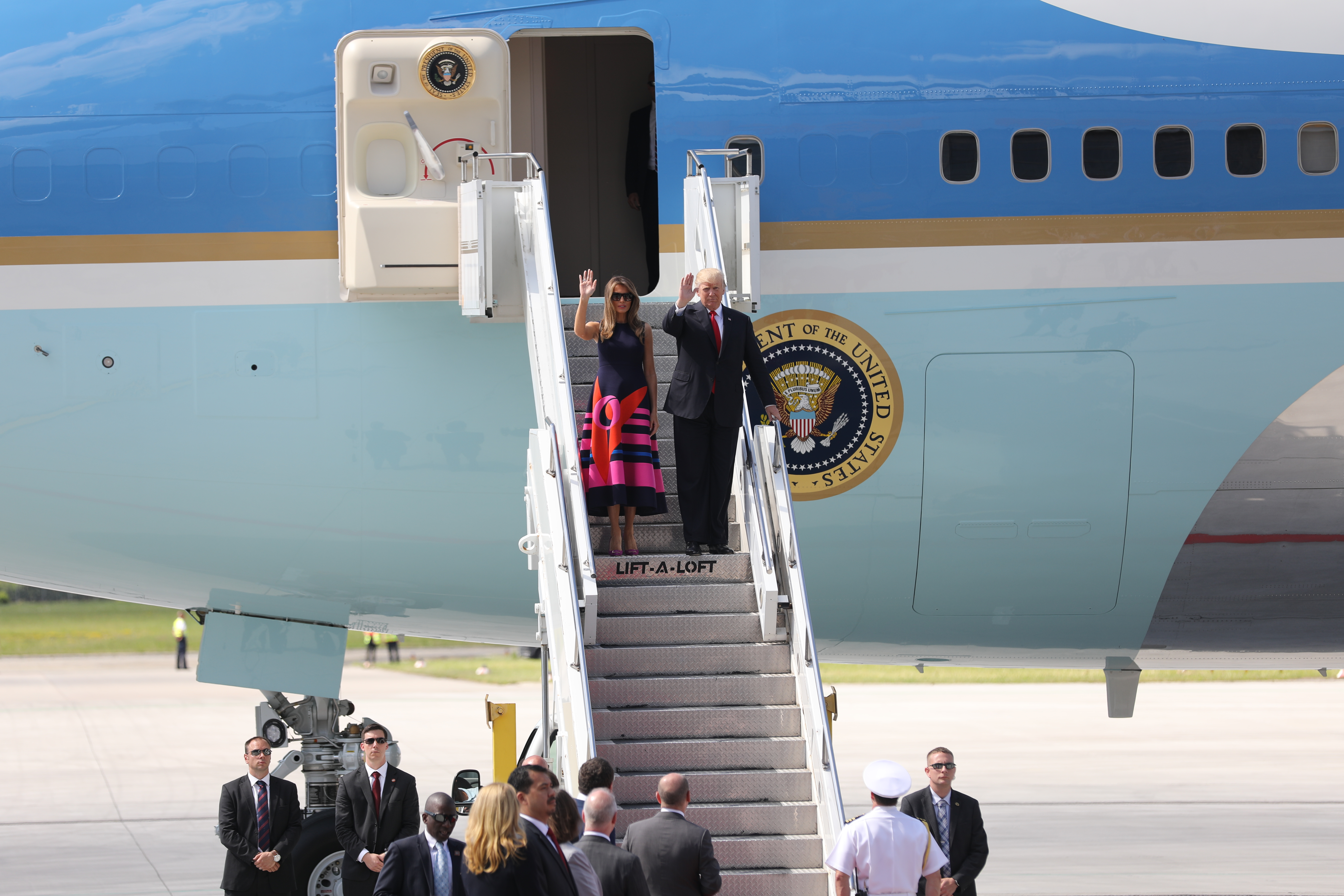 President Trump Arrives in Germany for the G20 Summit